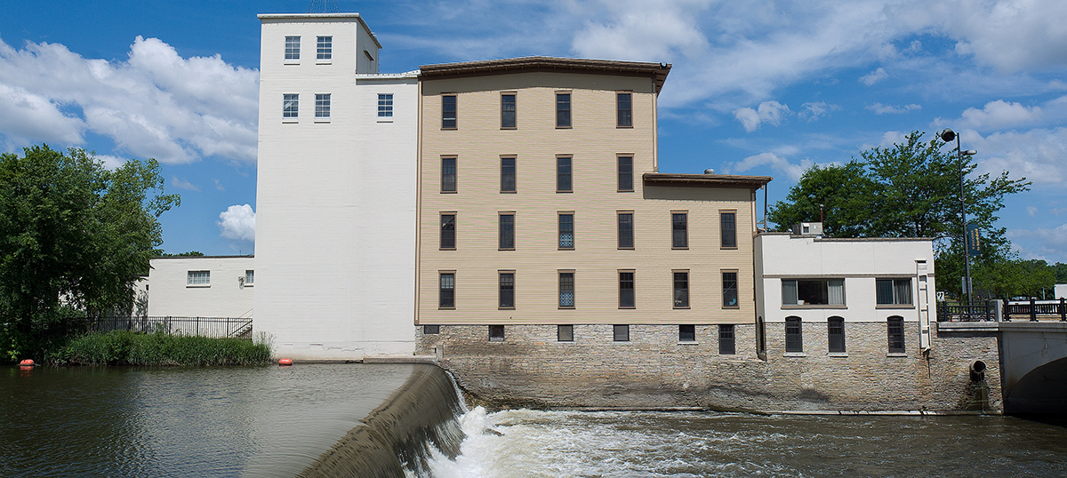 Ames Mill, Northfield Minnesota. Panorama of 6 images. June 2008.